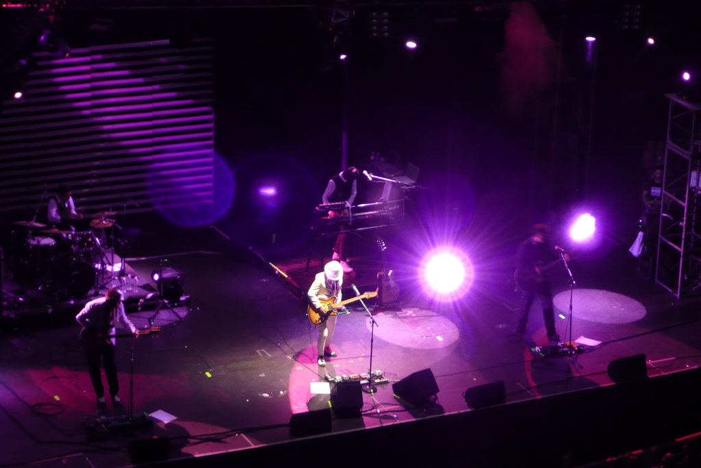 Cafe Tacuba performing in Buenos Aires, Argentina on February 22, 2008